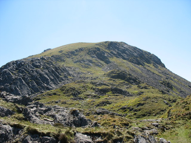 The Northern Crags of Moel Lefn. This view was taken from Bwlch Sais.